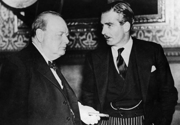 Winston Churchill and Anthony Eden in 1935